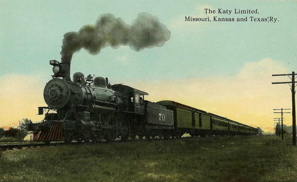 Postcard depiction of the Missouri Kansas and Texas Railway train "The Katy Limited".